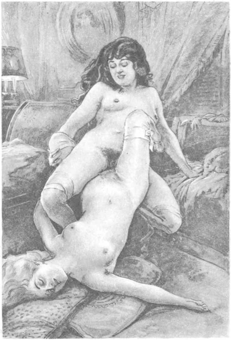 An illustration from the book Gamiani.